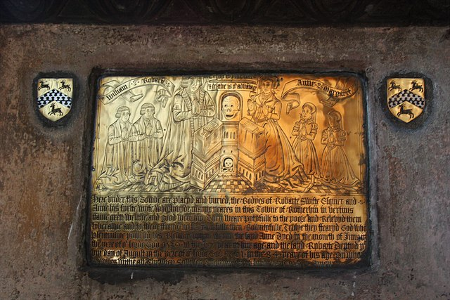 The monumental brass of the Swift/Swyft/Swyfte family of Rotherham in the north choir of All Saints parish church (today's minster) at Rotherham. The Swift family were prominent in the area, and intermarried with the de Wickersley, Reresby, Waterton and other gentry families. They later removed to Sheffield, where they owned the historic Broom Hall house. [1]